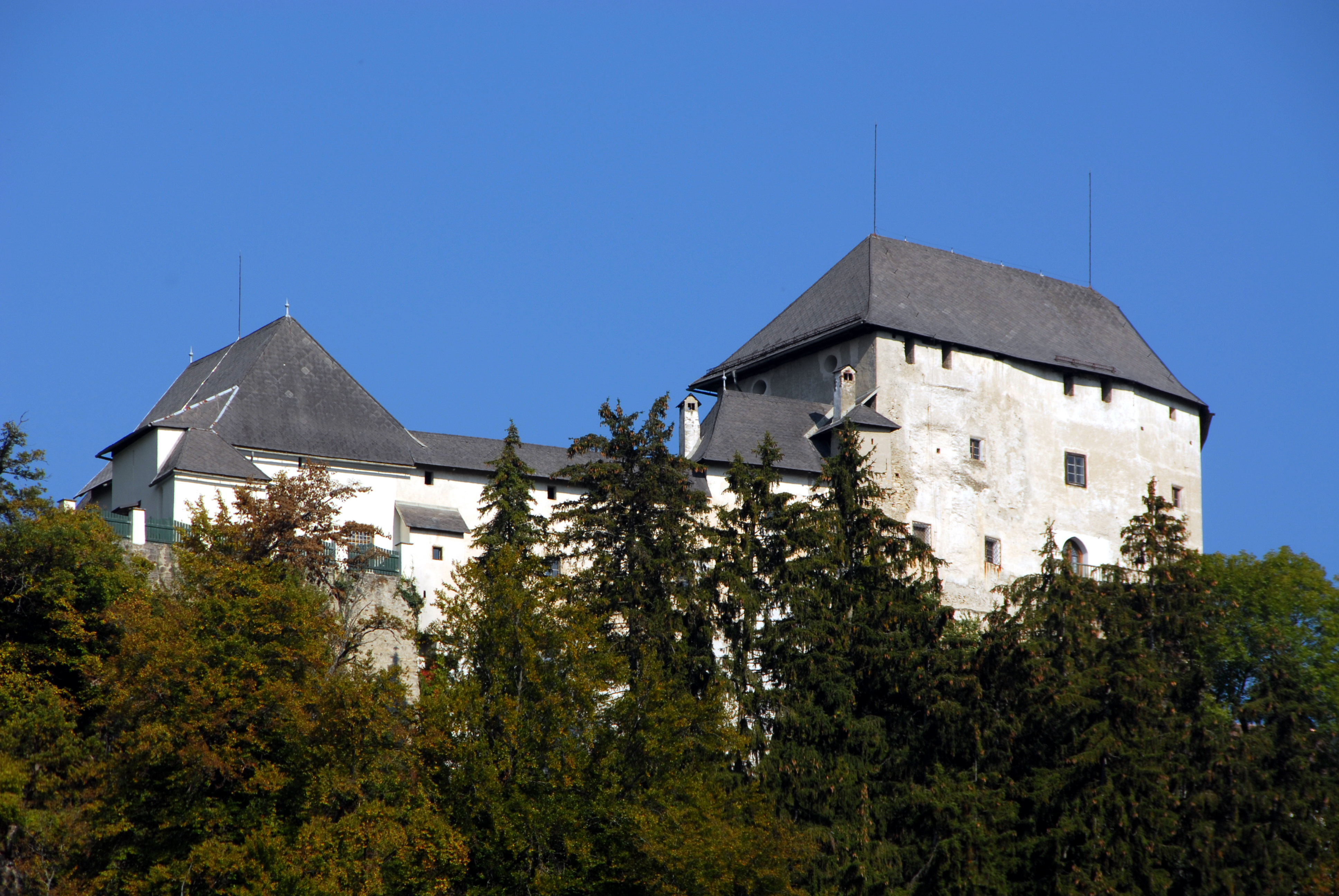 Castle Mannsberg at Mannsberg, municipality Kappel am Krappfeld, district St. Veit an der Glan, Carinthia / Austria / EU